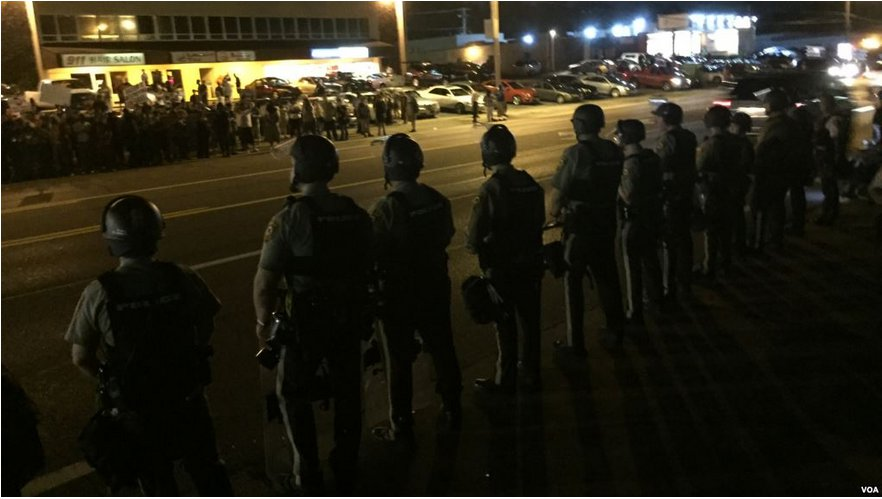 Police and protesters assembling on West Flourissant Ave., Ferguson, Missouri, Aug. 10, 2015. (VOA/K. Farabaugh)